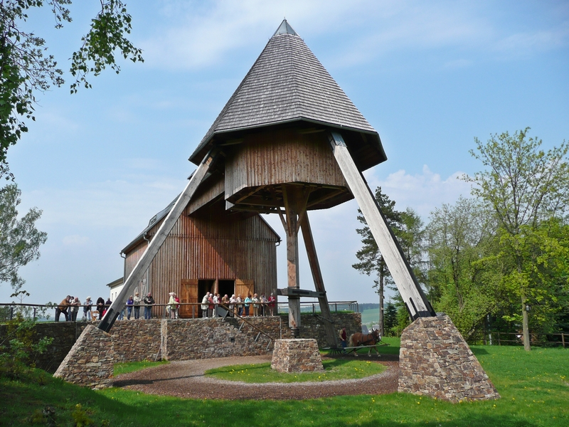 Lauta (Marienberg): Horse mill used in the silver mine "Rudolphschacht".